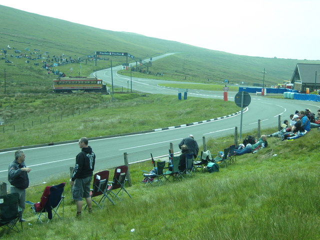 Awaiting the Brave at Bungalow Station